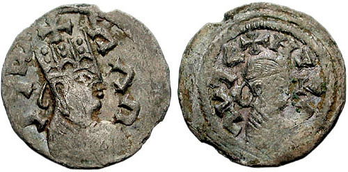 Coin of the Axumite king Endubis